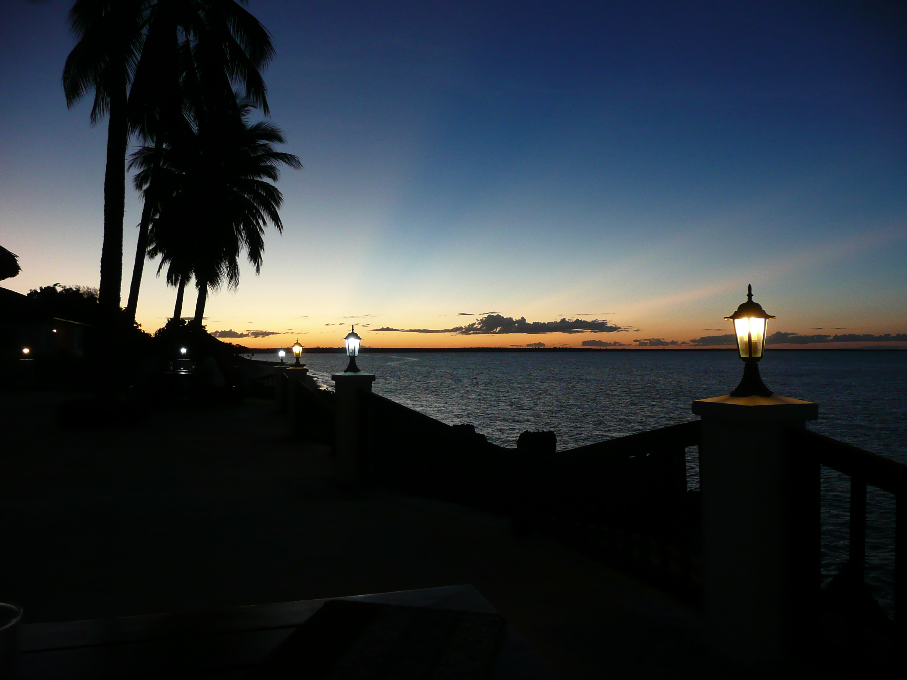 Mtwara, Tanzania